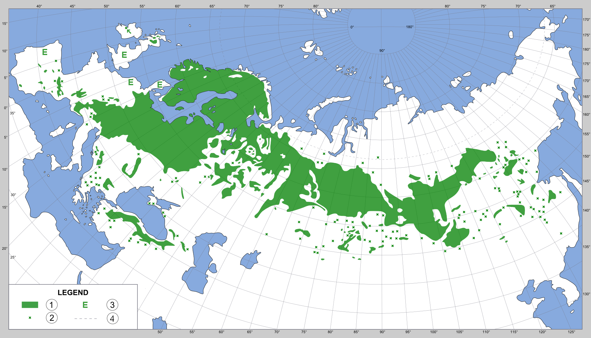 Distribution map of the native ranges of Pinus sylvestris (Scots pine) — in Asia and Europe. Legend Main range of the species. Isolated occurences. Natural populations extinct due to human intervention (reintroduced populations established in some areas) Arctic Circle.